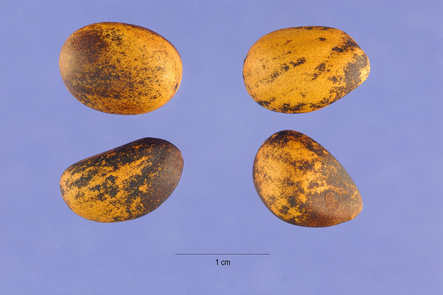 Seeds of Twoneedle Pinyon (Pinus edulis)